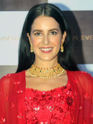 Isabelle Kaif snapped at a Jewellery event in Andheri